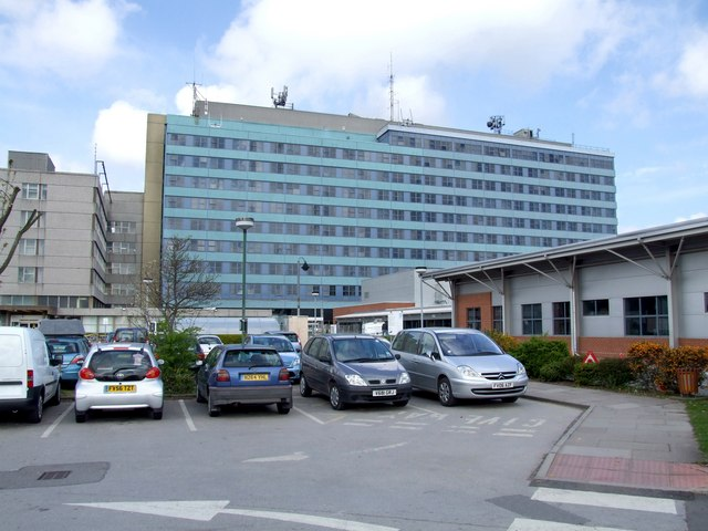 Pilgrim Hospital, Boston. The external facade of the hospital, which in 2001-2003 received repair and refurbishment work costing £3.7 million. It was carried out for the United Lincolnshire Hospitals NHS Trust and is expected to reduce the hospital's running costs as well as extend the life of the building.